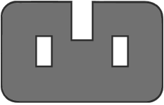 IEC 60320 C11